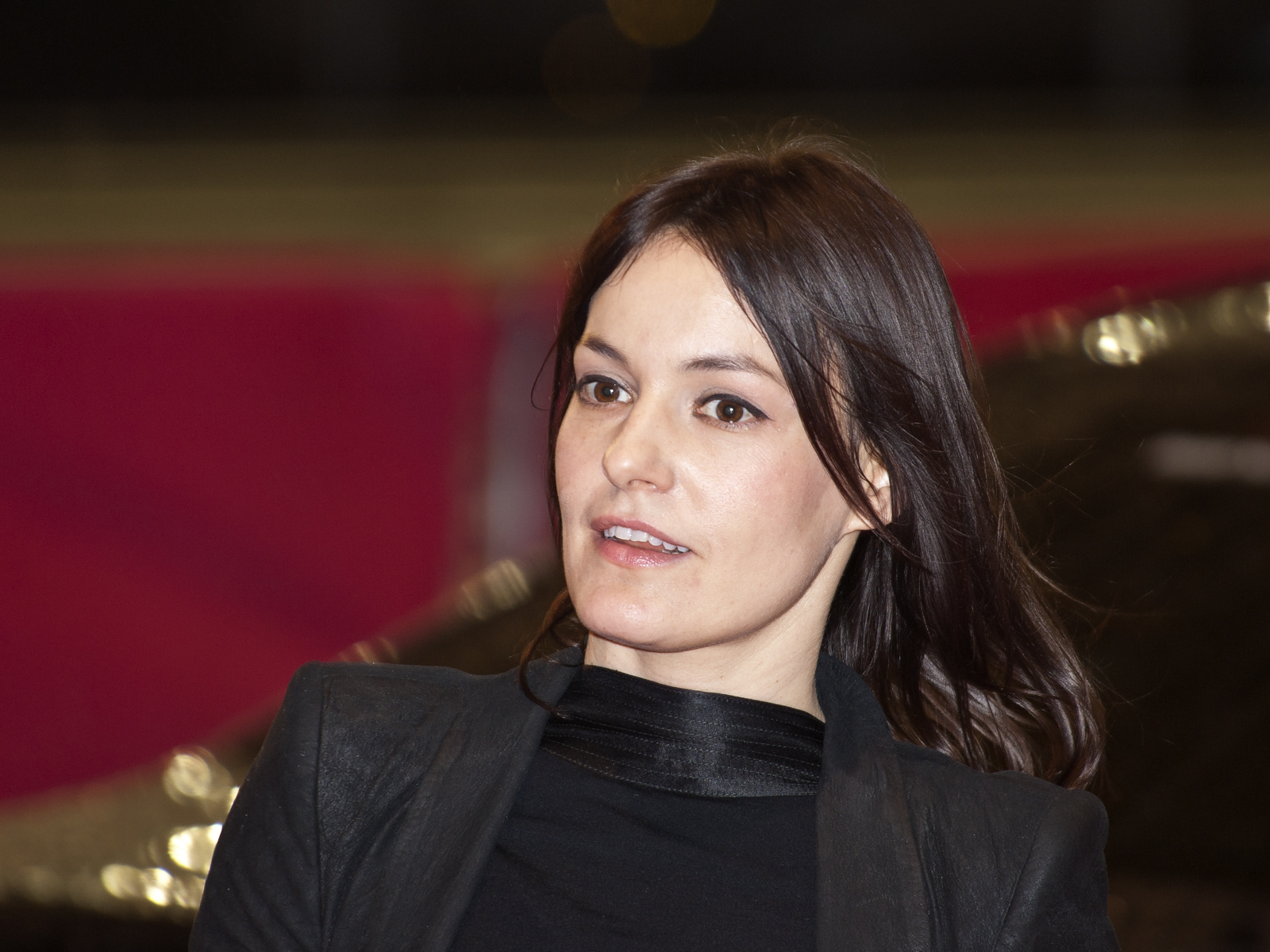 German actress Nicolette Krebitz at the Berlin Film Festival 2011